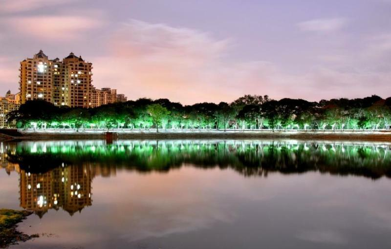 Night View of Upvan Lake